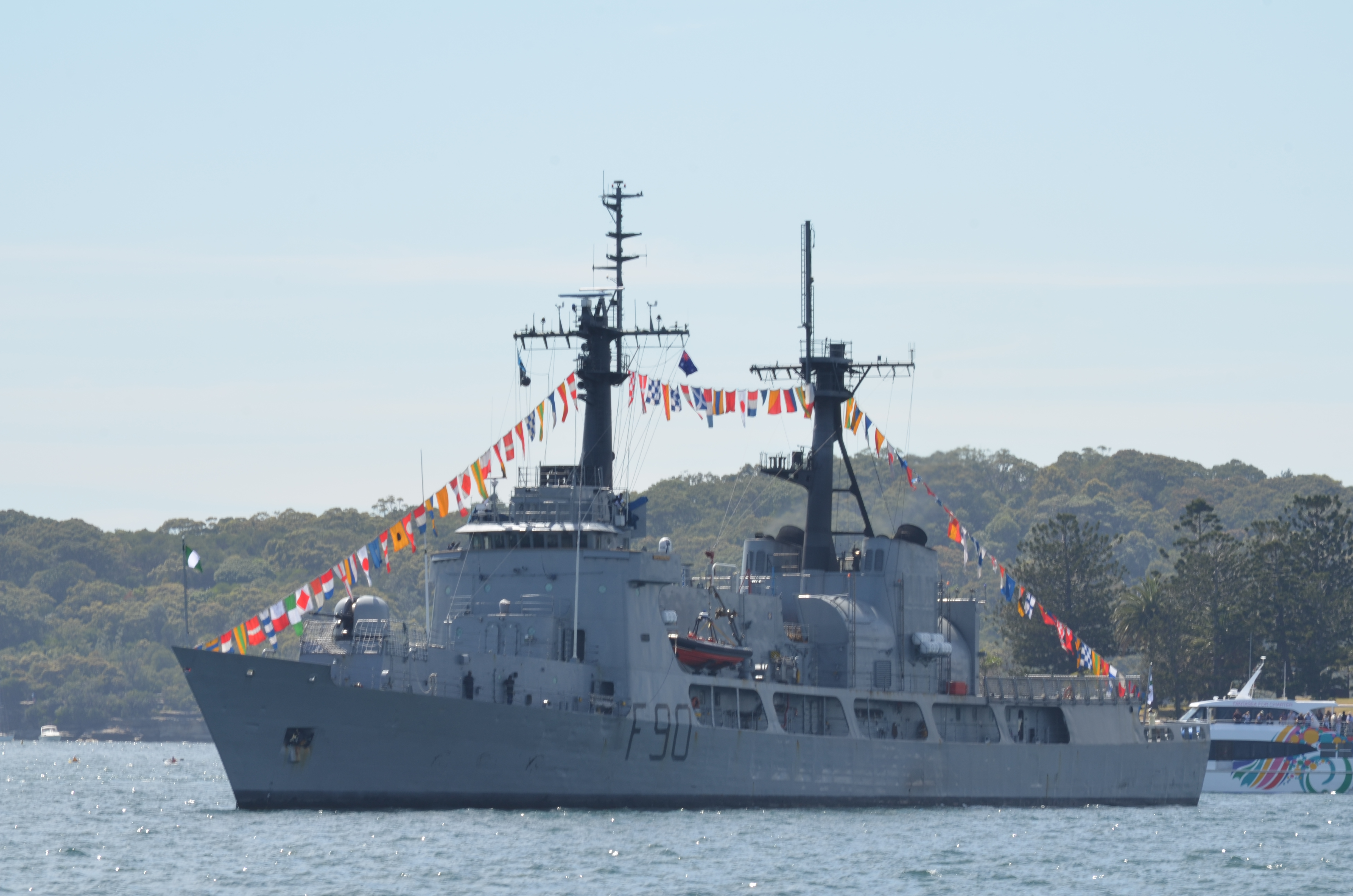 Photographs taken during day 3 of the Royal Australian Navy International Fleet Review 2013. Nigerian frigate Thunder, moored on Sydney Harbour.